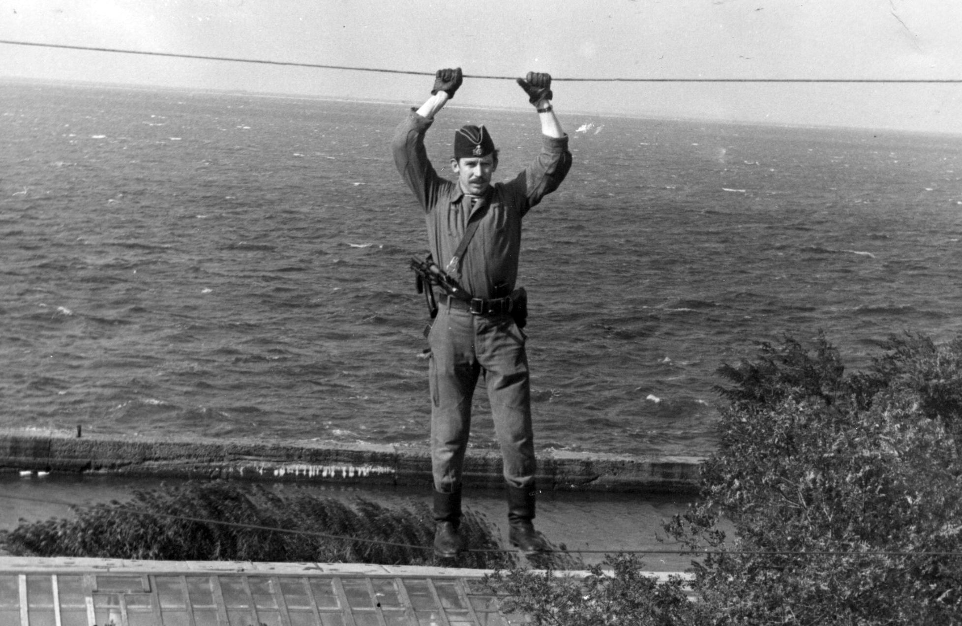 commander of the 7th Brigade special operations forces of Ukrainian Navy сaptain Anatoliy Karpenko